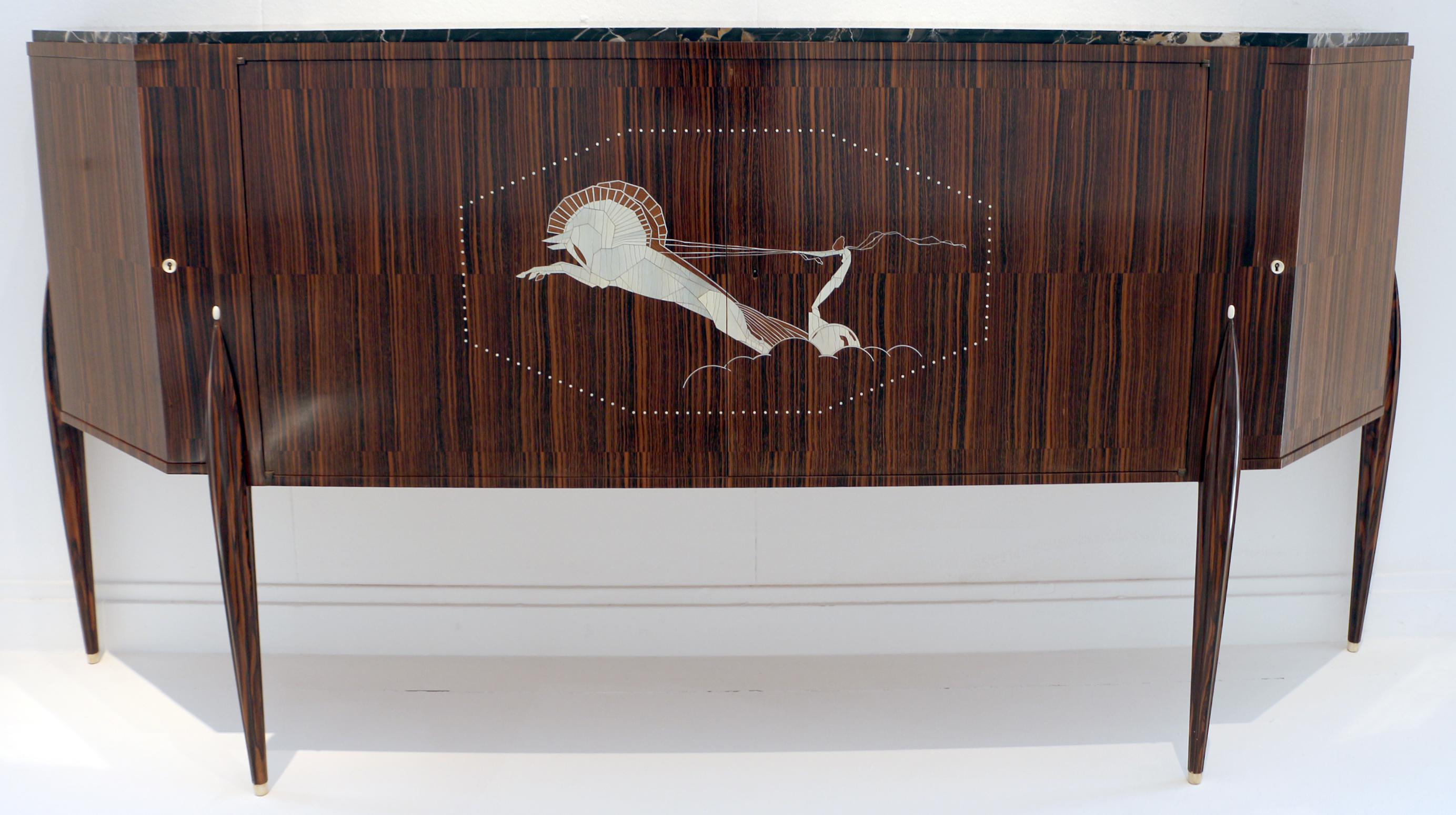 Collections of the Musée d'Art Moderne de la Ville de Paris